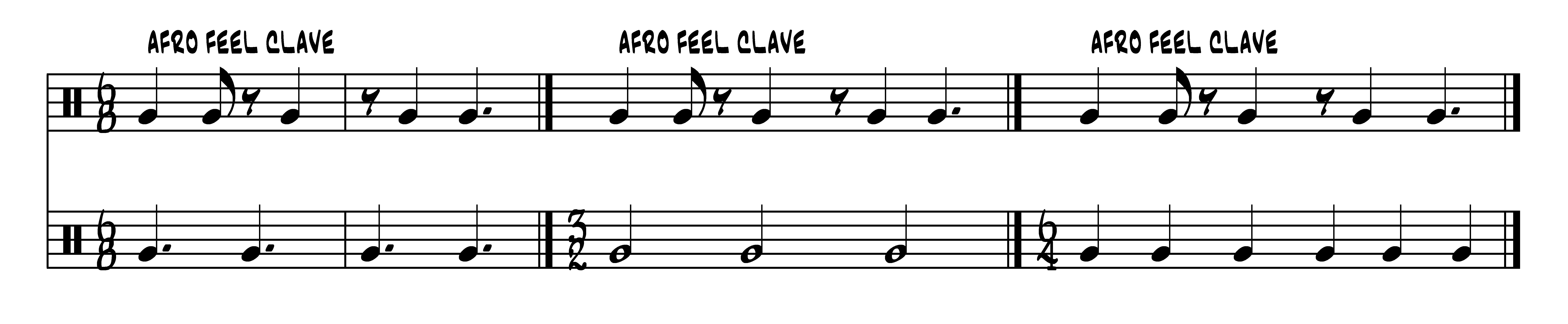 3 Claves with counting (tapping) beats in three different ways